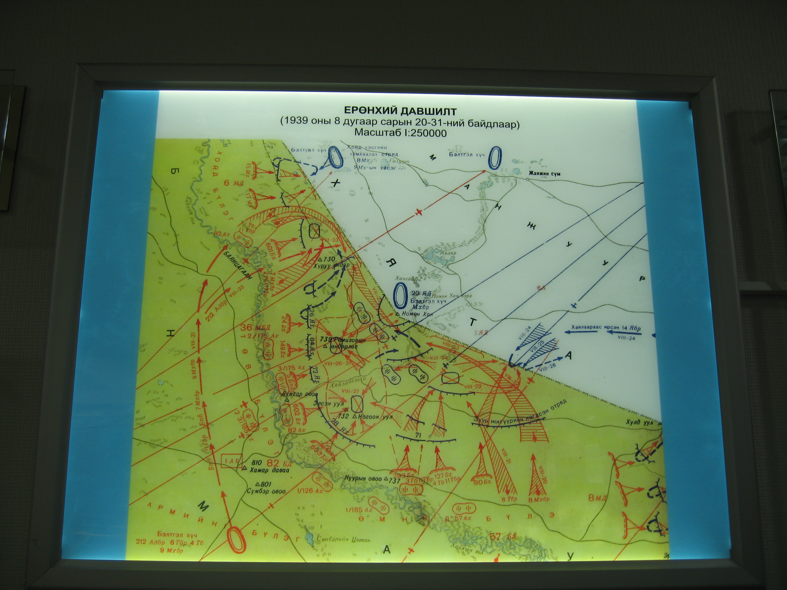 Picture of an original Russian diagram of the Soviet attack at the Battle of Khalkhin Gol, August 1939. Diagram kept at the G.K. Zhukov Museum, Ulaanbaatar, Mongolia.